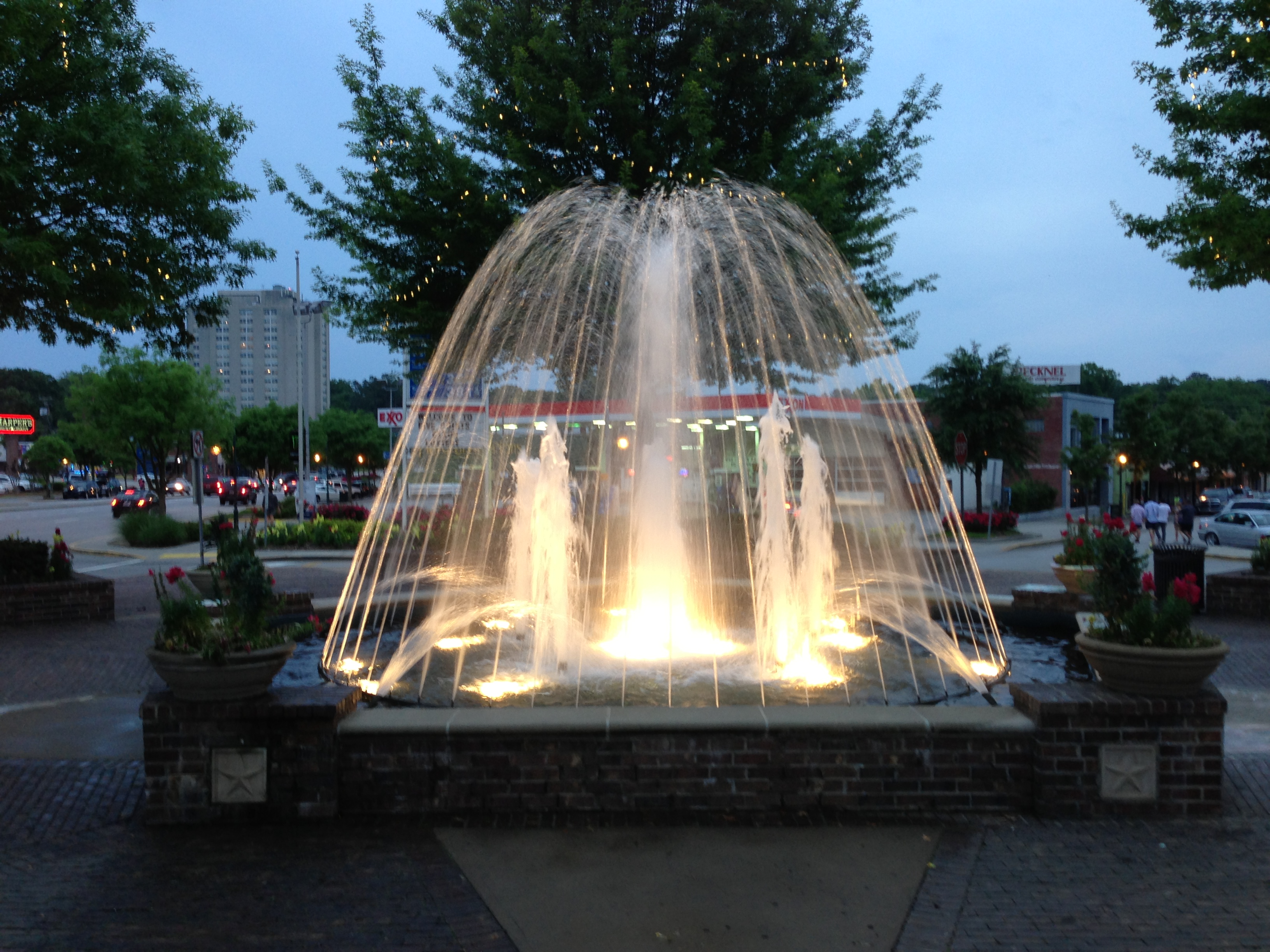 Fountain in pedestrian shopping district of Columbia, South Carolina